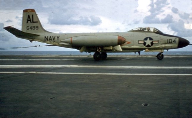 A U.S. Navy McDonnell F2H-3 Banshee (BuNo 126489) fighter of fighter squadron VF-171 Aces of Carrier Air Group 17 (CVG-17) landing on the aircraft carrier USS Franklin D. Roosevelt (CVA-42) during that carrier's deployment to the Mediterranean between July 1957 and March 1958. The aircraft wears the tailcode "AL" which was used for CVG-17 only during that deployment.